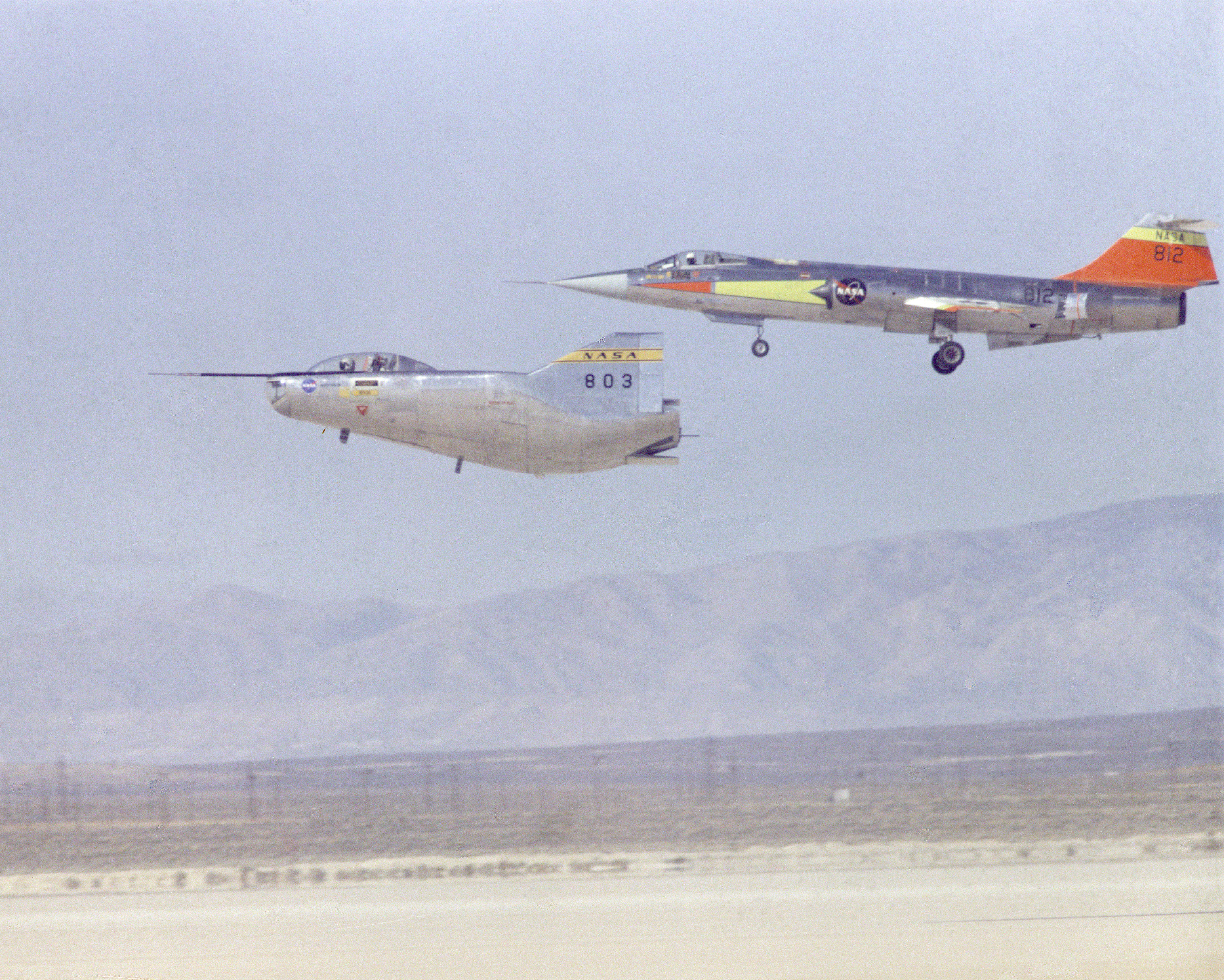 The M2-F2 lifting body returns from a research flight at the NASA Dryden Flight Research Center, Edwards, California, with an F-104 flying chase.